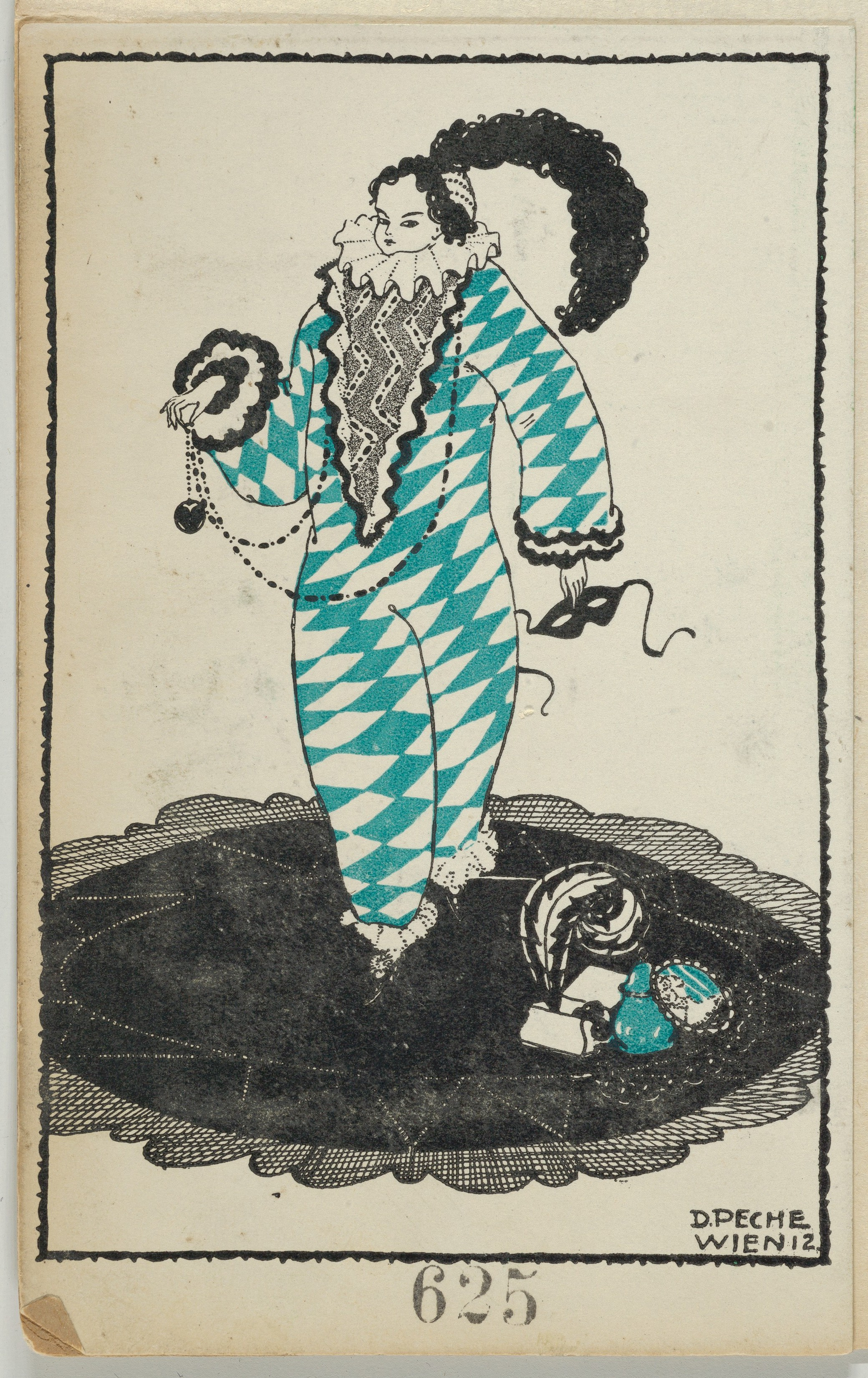 Print; Prints